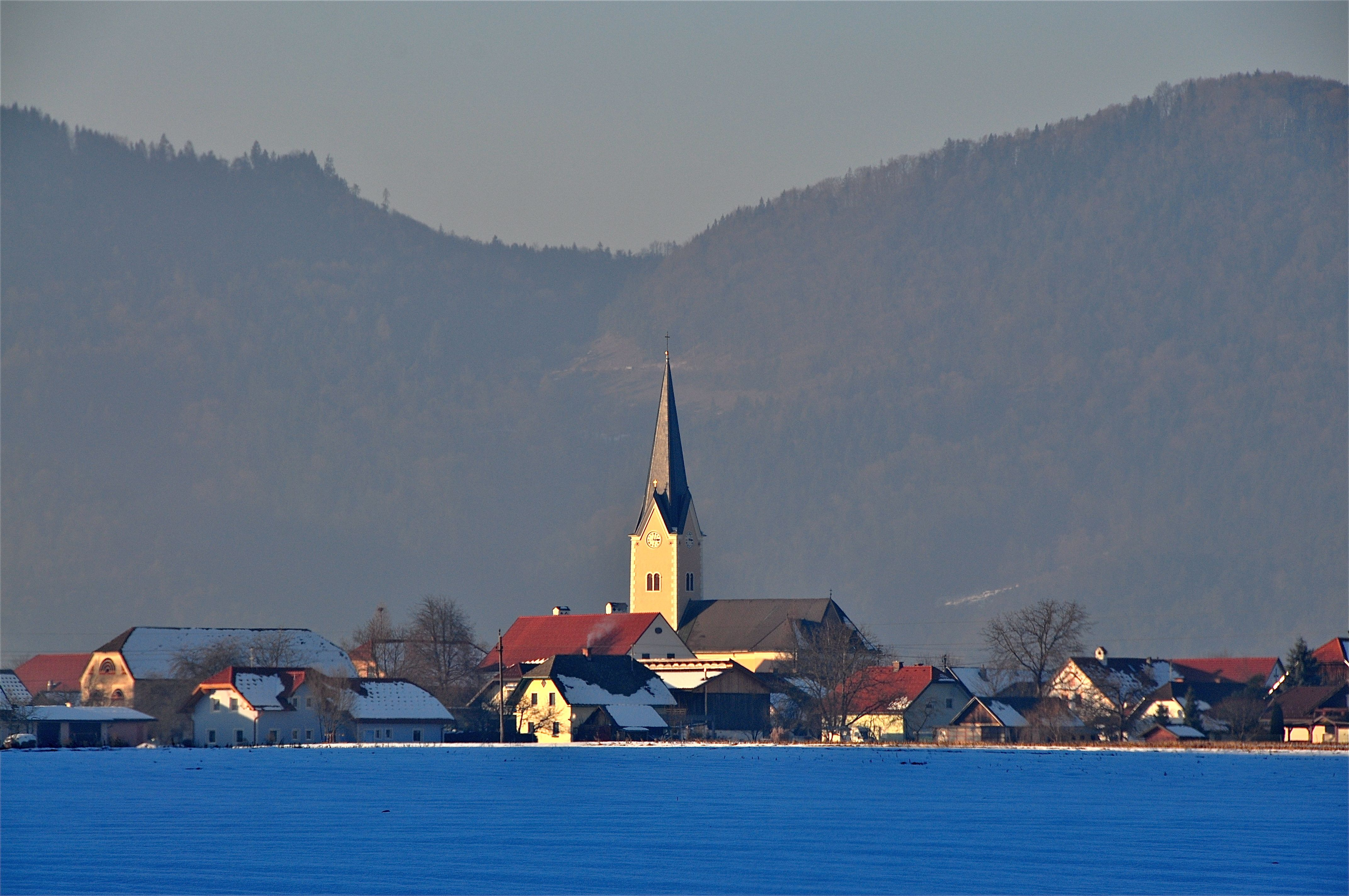 South view at Schwabegg, municipality Neuhaus, district Voelkermarkt, Carinthia, Austria